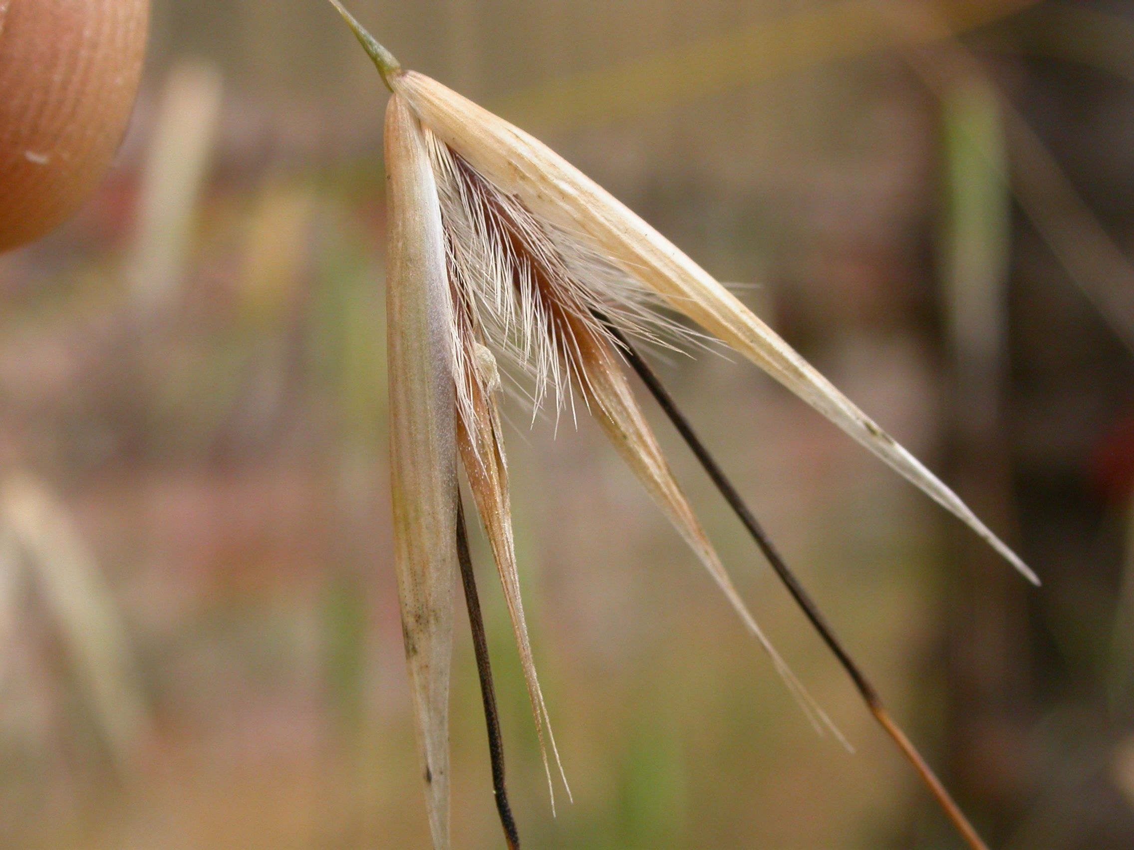 The long slender bifid tip of the lemma is diagnostic of this species.